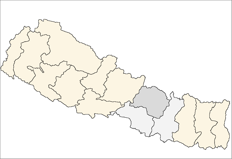 FrenchCarte de localisation de lazone de la Bagmati(wp-FR),au Népal (wp-FR).EnglishLocation map ofBagmati Zone(wp-EN),in Nepal (wp-EN).